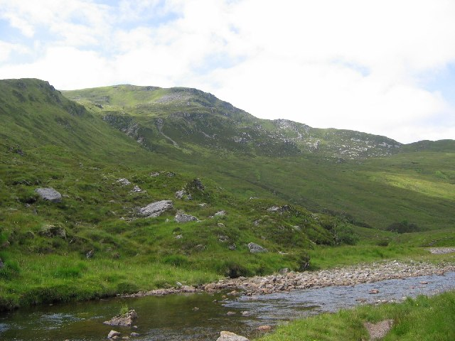 Sgurr na Feartaig. Sgurr na Feartaig from the Pollan Buidhe, a green hanging valley above Glen Carron, and through route to Strathconon.